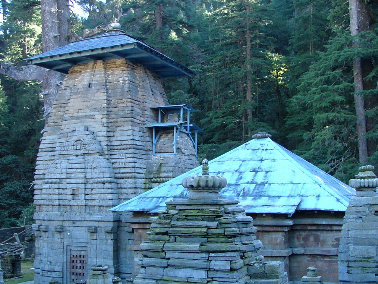 Jageshwar